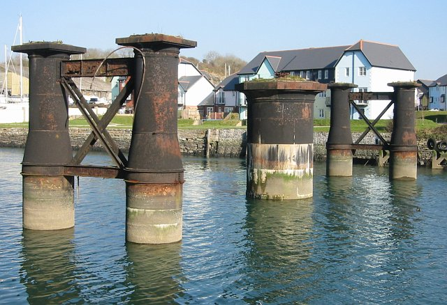 Piers from an old Railway Bridge. These piers are all that is left of a railway spur which crossed the narrow entrance to Hooe Lake at this point on the way to Turnchapel.